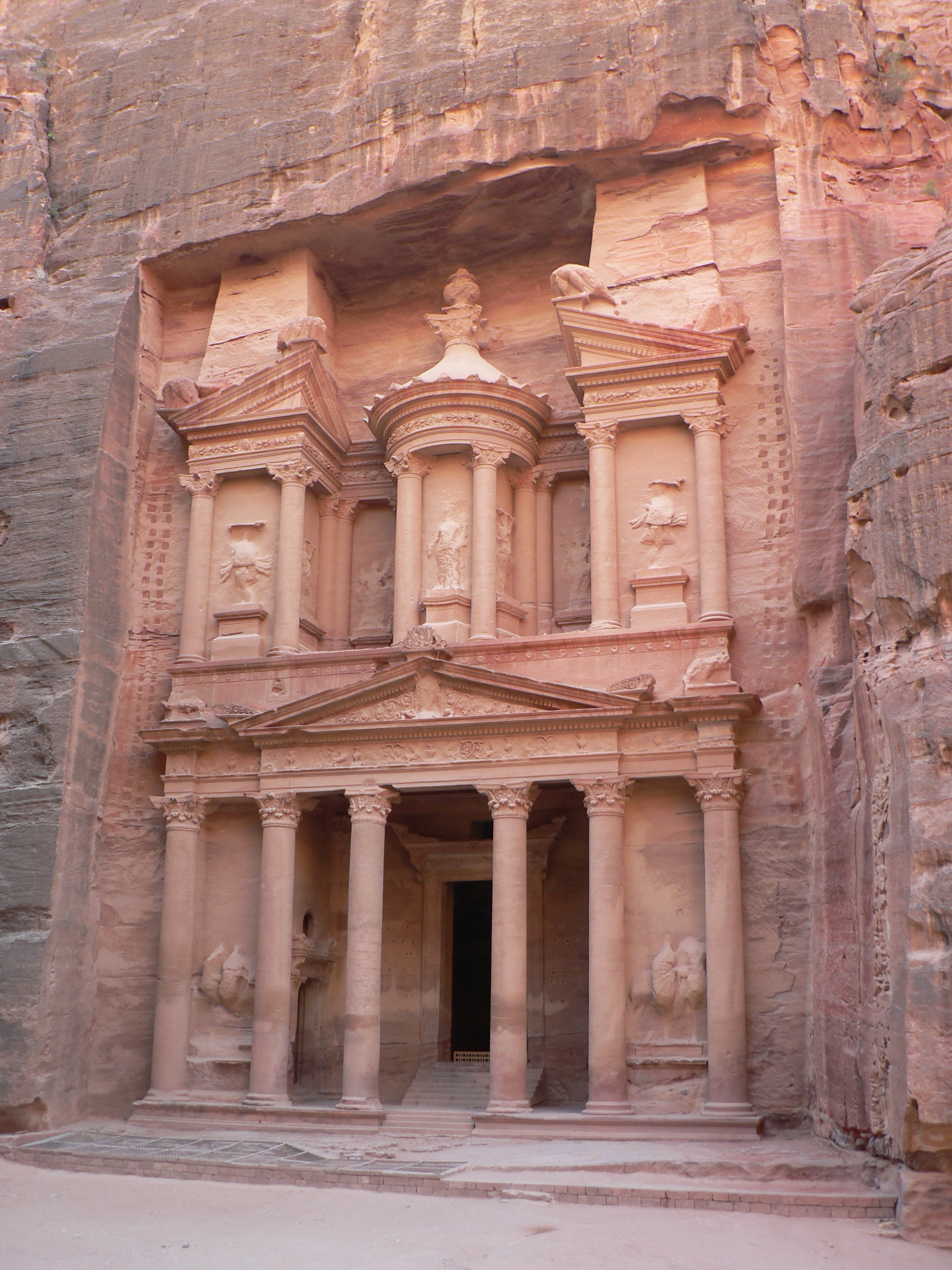 Petra, The Treasury